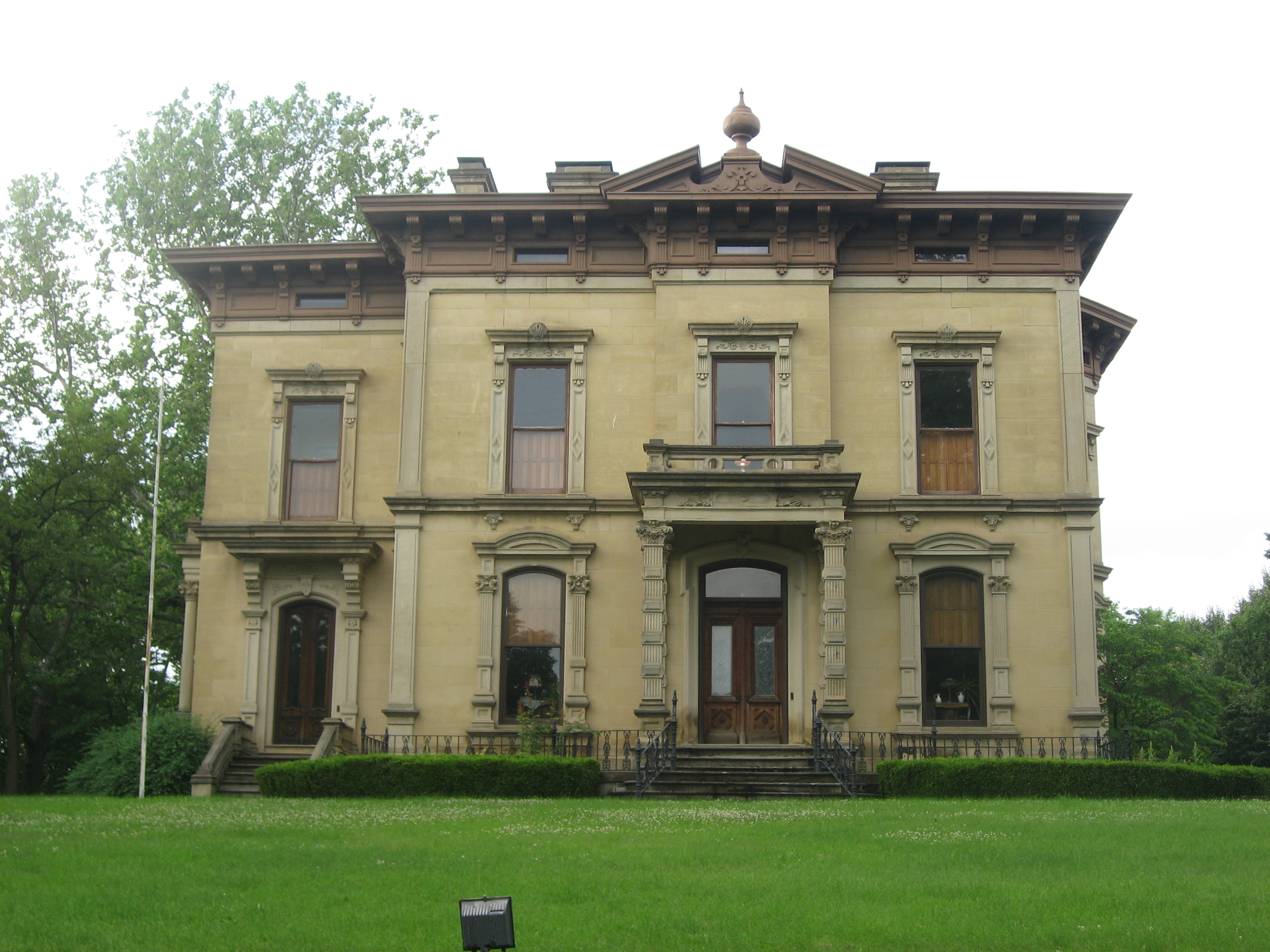 Front of Foos Manor, located at 810 E. High Street in Springfield, Ohio, United States. It is part of the East High Street Historic District, a historic district that is listed on the National Register of Historic Places.